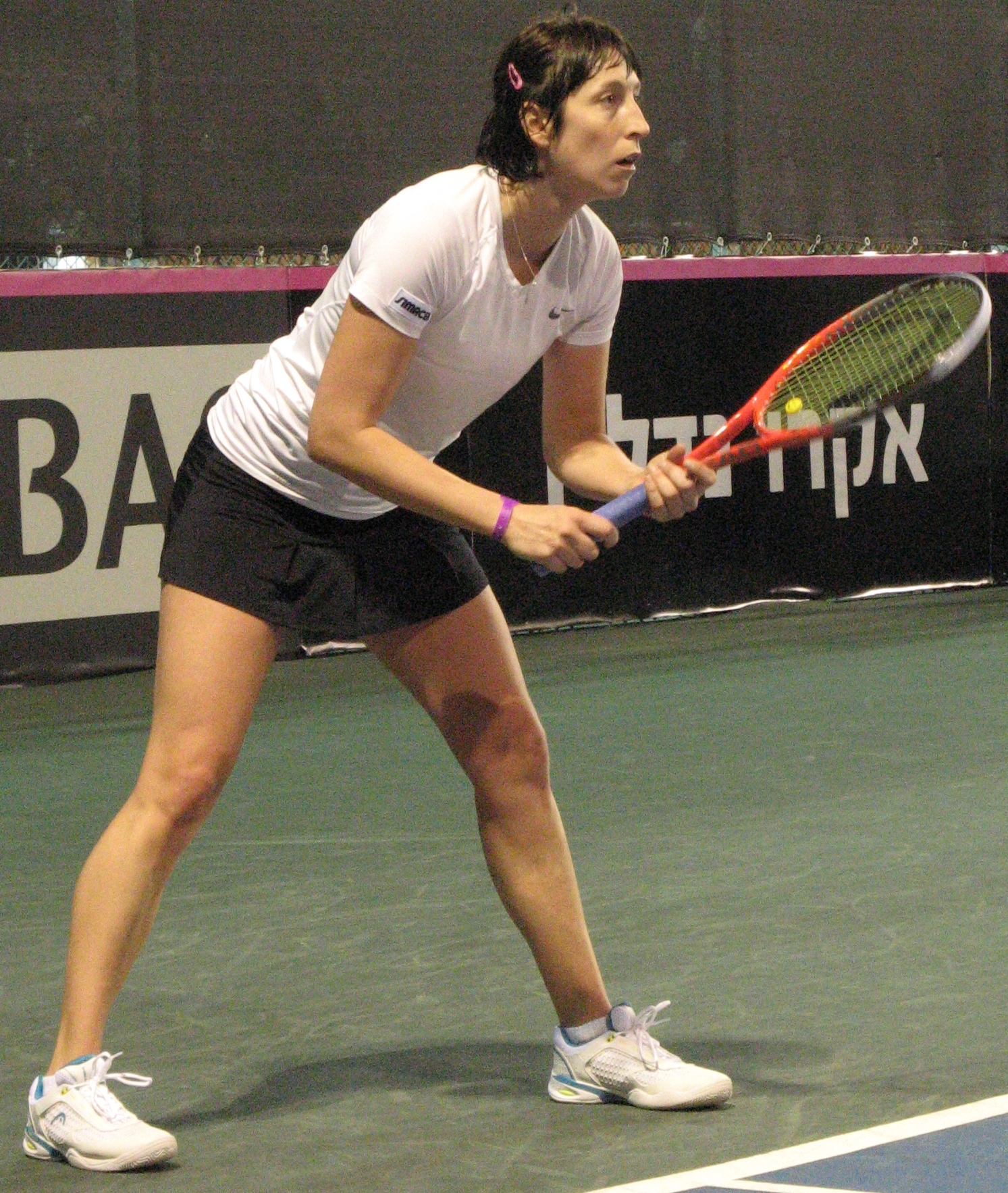 The tennis player Yvonne Meusburger of Austria during her match against Ilona Kremen of Belarus in the 2nd day of Fed Cup Group I 2013 Europe/ Africa in Eilat, Israel.